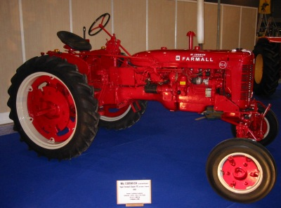 Farmall Super FC 1955 model